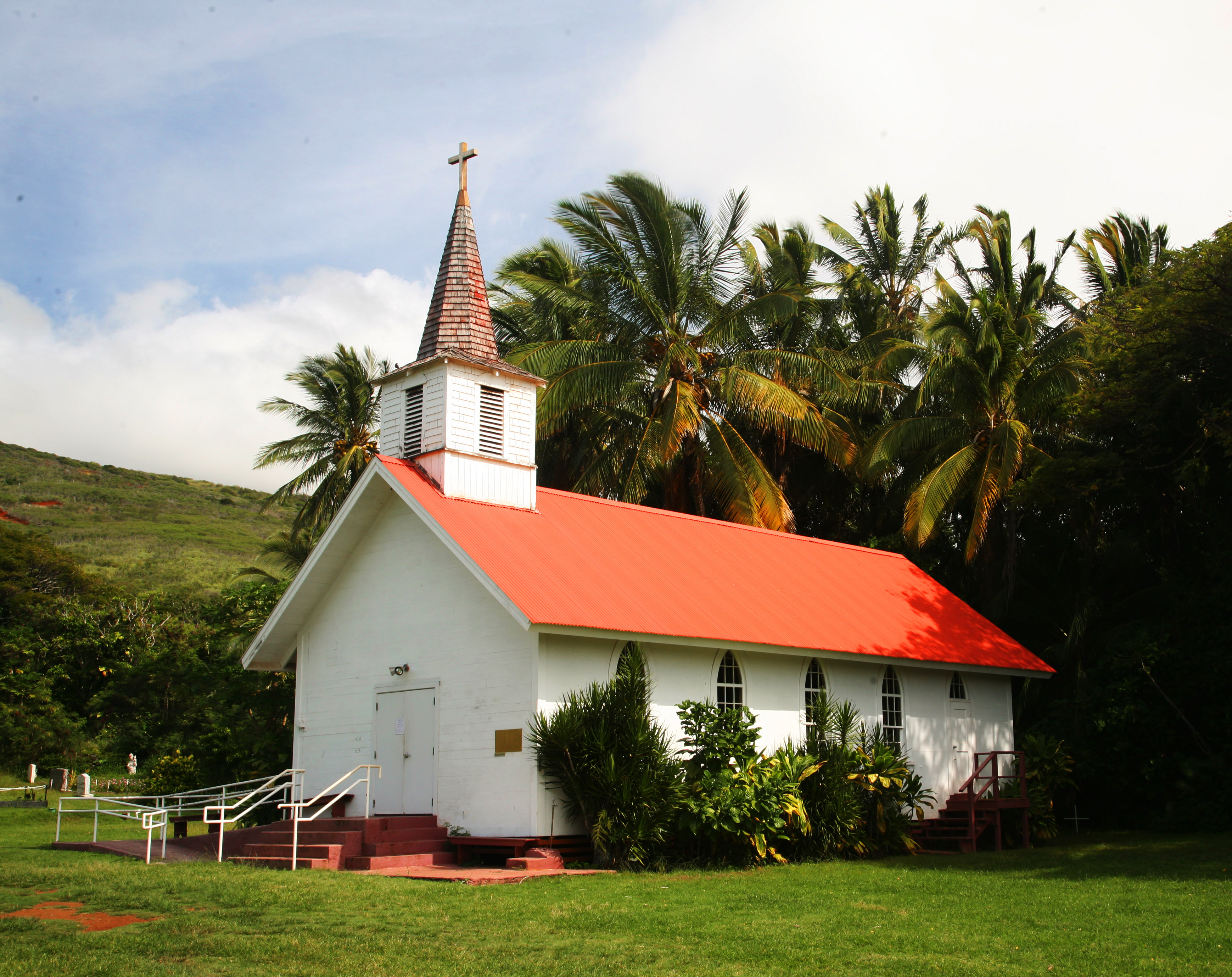 This is one of the two surviving churches built in the late 1800's by the Belgian priest Father Damien (of Leper Colony fame)